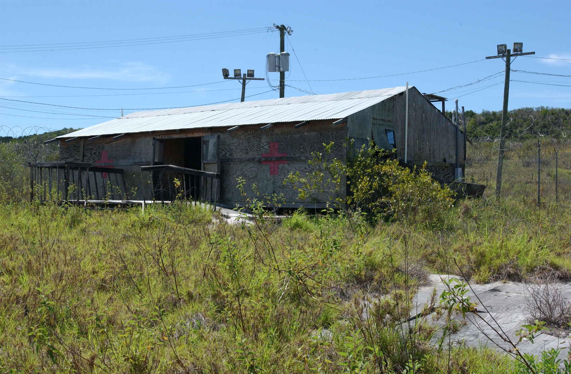 GUANTANAMO BAY, Cuba – The main detainee hospital located in Camp X-Ray. Camp X-Ray was a part of Joint Task Force Guantanamo that has not been used since April 2002. Camp X-Ray was only used for four months while a more permanent detention facility could be built known as Camp Delta. Aug, 30, 2007. (Joint Task Force Guantanamo photo by Army Capt. Kevin Cowan)